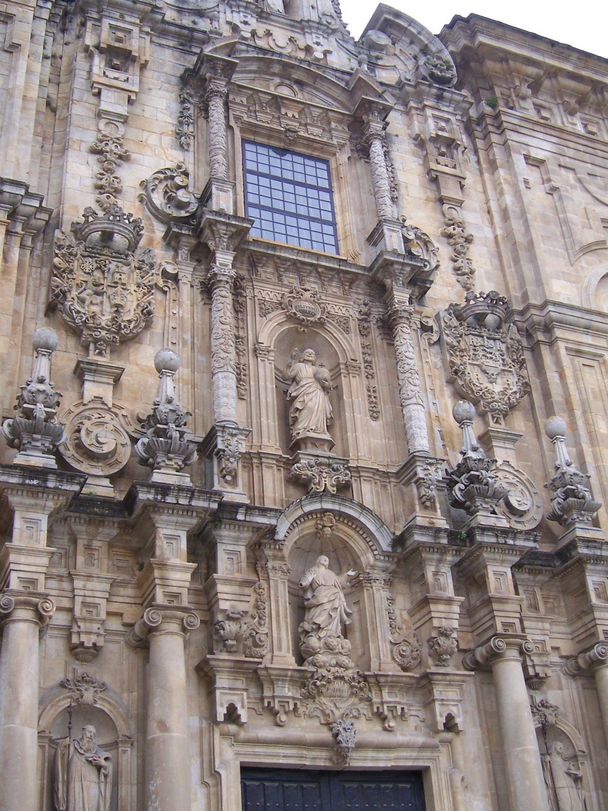 Facade of the church and monastery of San Salvador, in Lorenzana province of Lugo (Spain).